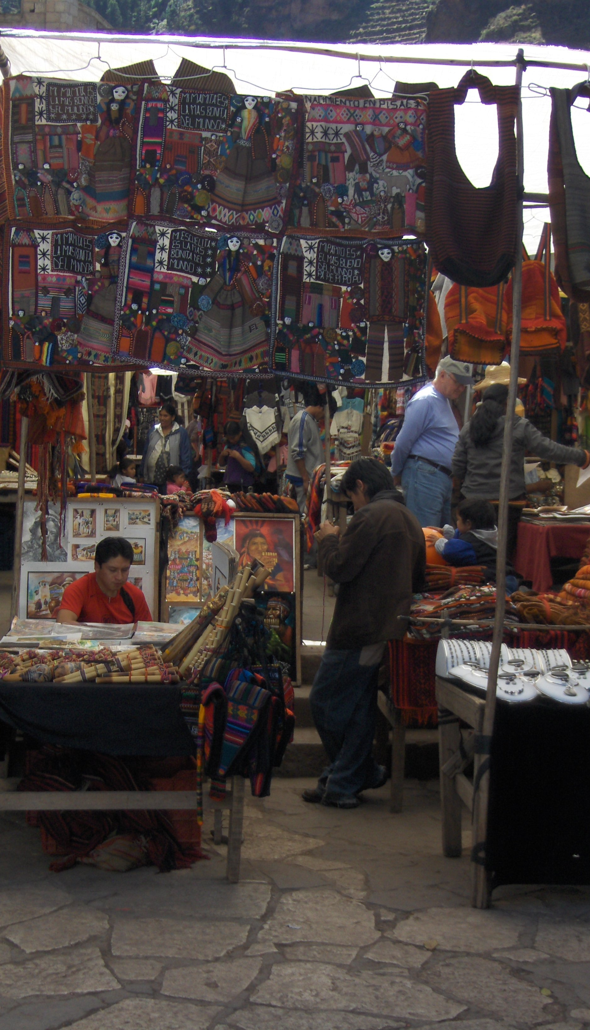 Image of the famous marketplace in Pisac, Peru, from my vacation.